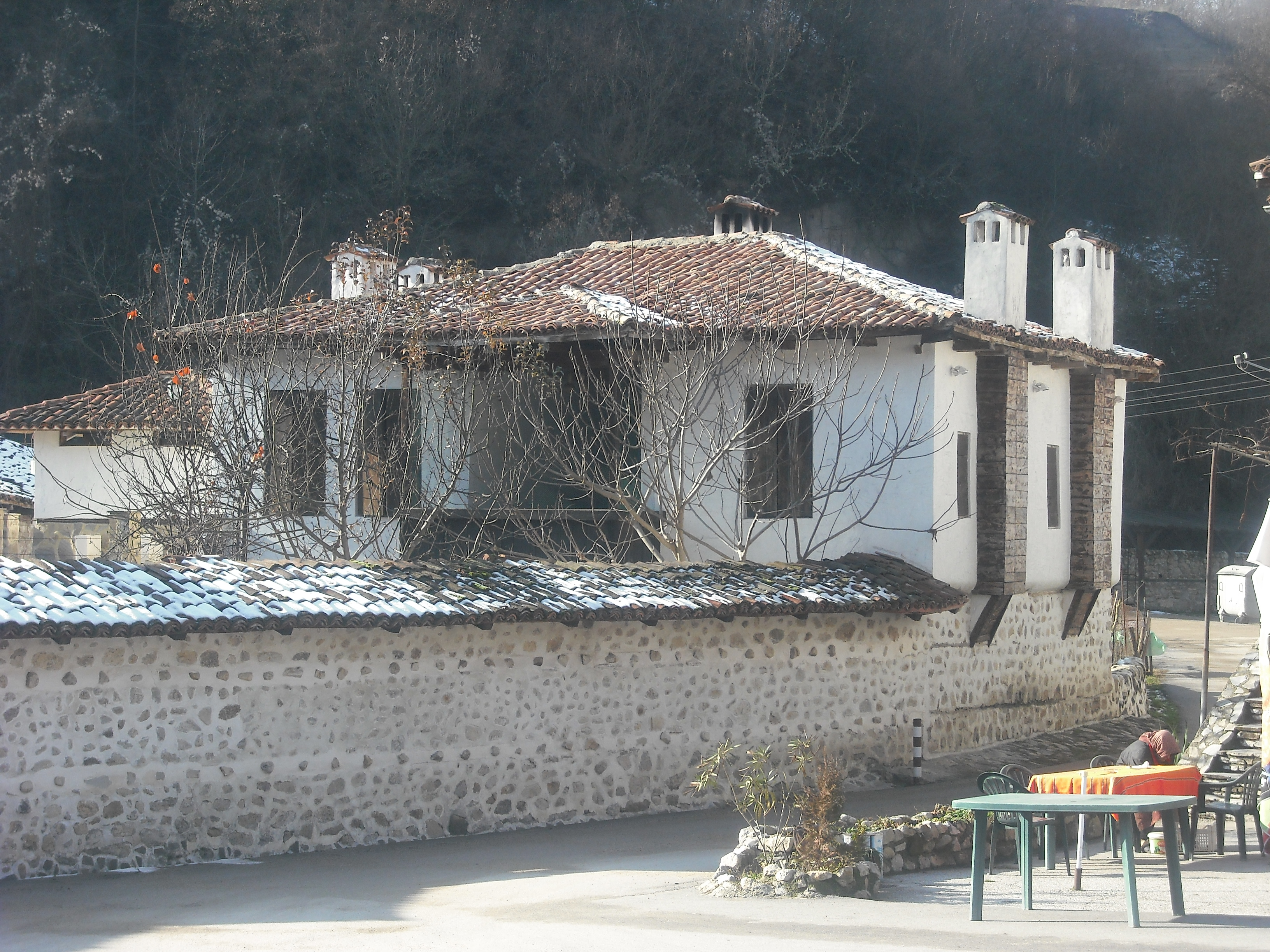 The village of Rozhen near Melnik in Bulgaria